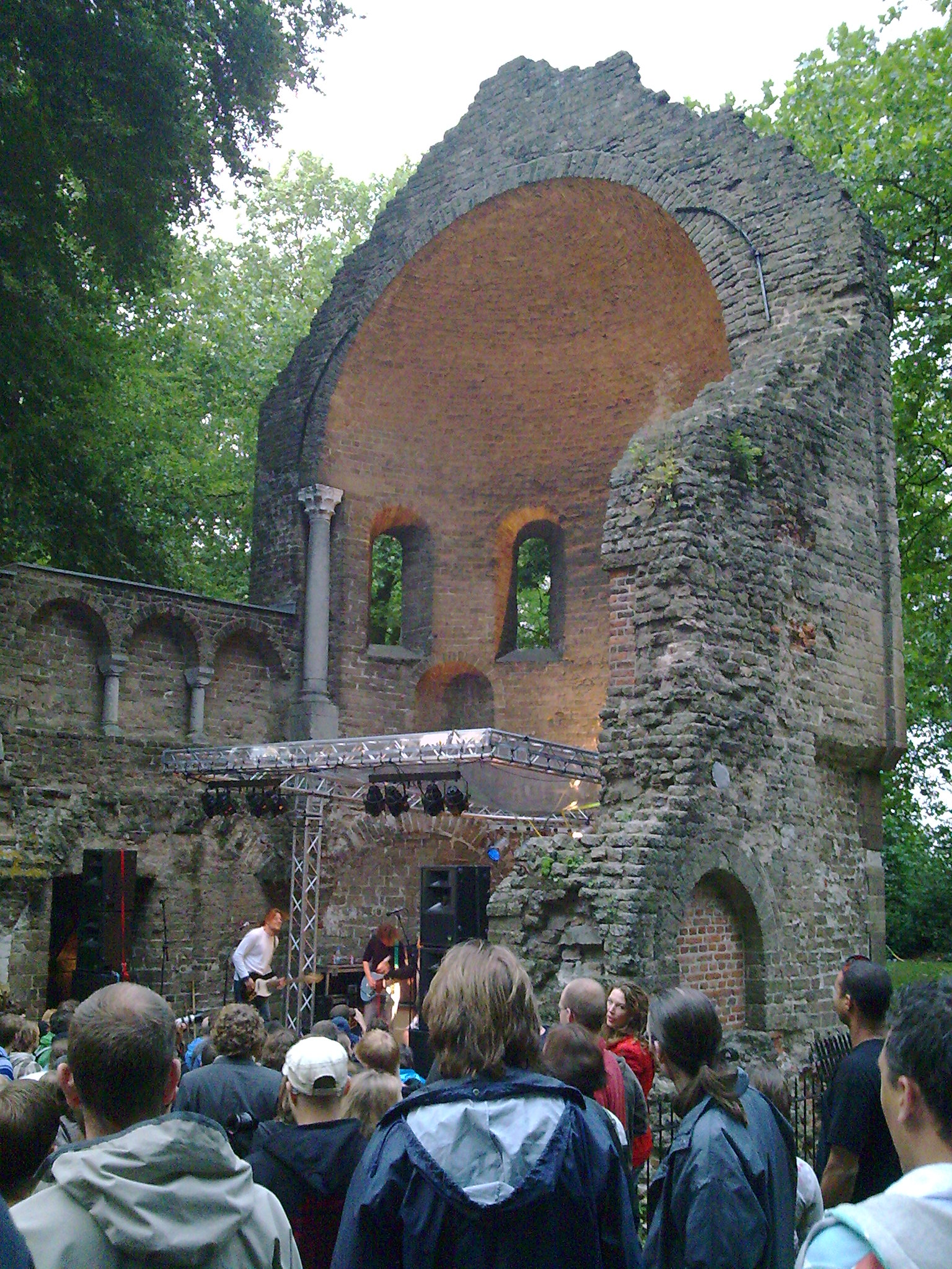 Dead Man Running performing live at de-Affaire festival in Nijmegen; the stage is actually the Barbarossa-ruins at Valkhof park.